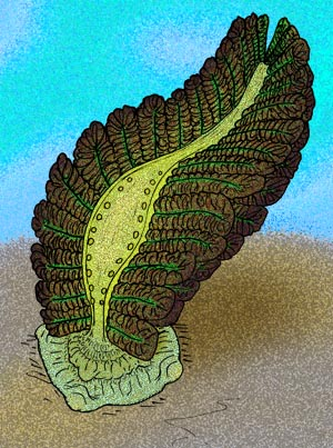 Reconstruction of the organism Bomakellia kelleri as a rangeomorph, from the Ediacaran of the White Sea of Russia.